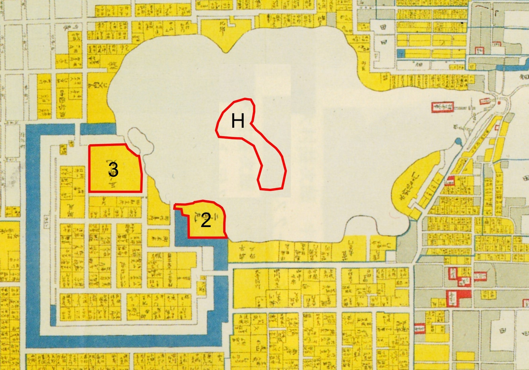 Iyo Matsuyama castle marked on map from Genroku-Era